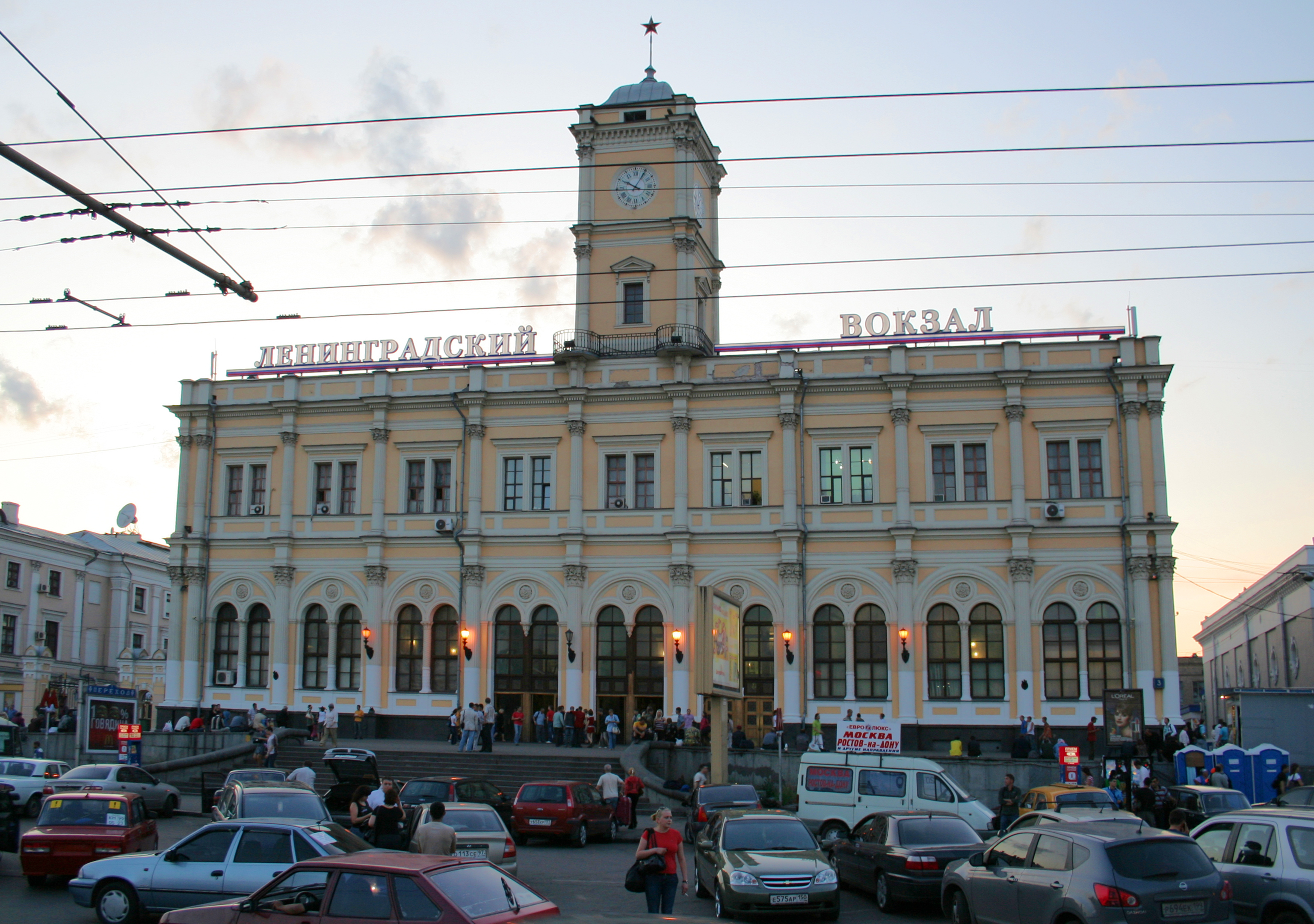 Terminal building of the Leningradsky Rail Terminal in Moscow